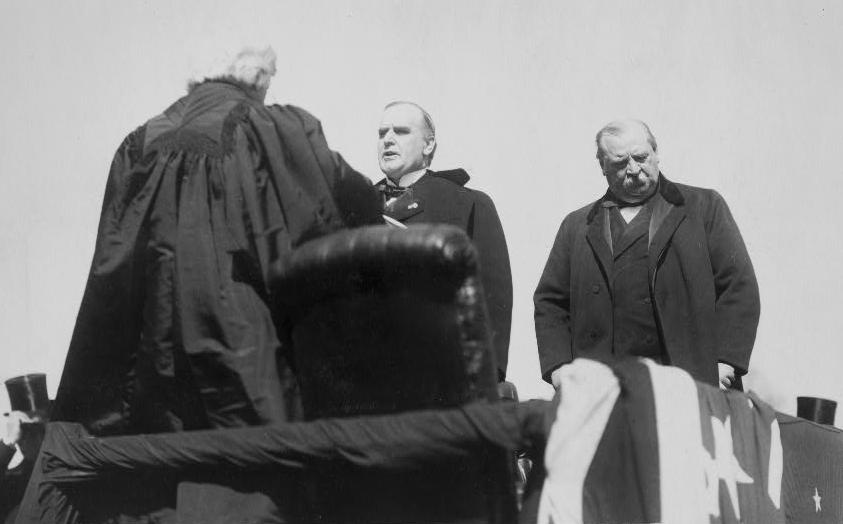 U.S. Chief Justice Melville Fuller administering the oath of office for President of the United States to William McKinley,1897. Out-going president Grover Cleveland stands to the right.